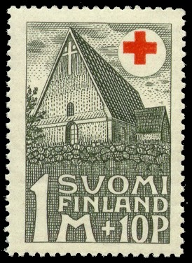 Postage stamp depicting the Finnish Hattula church